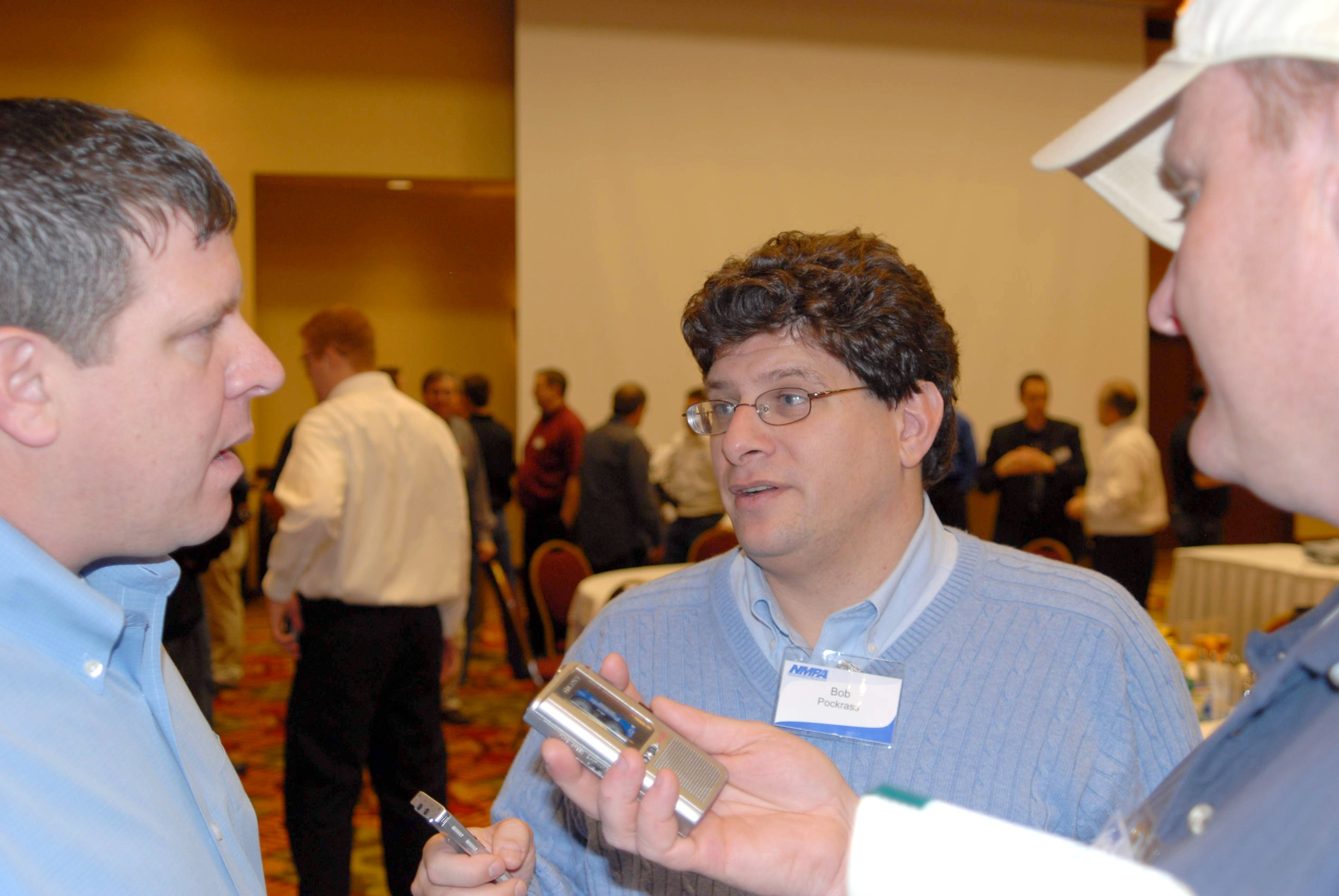 Photos by Ted Van Pelt. Licensed Creative Commons